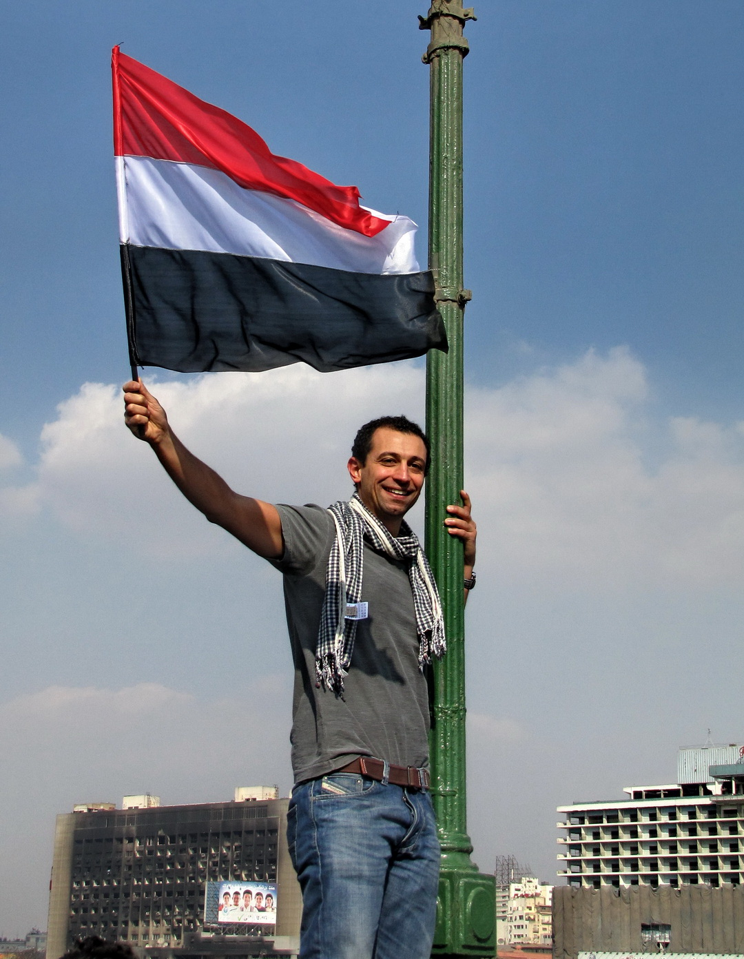 An Egyptian waving his national flag (albeit lacking the eagle in the center) on Qasr al-Nil Bridge in Cairo, in celebration of Hosni Mubarak's resignation during the Egyptian Revolution of 2011. Behind him, the burnt-out NDP building can be seen.